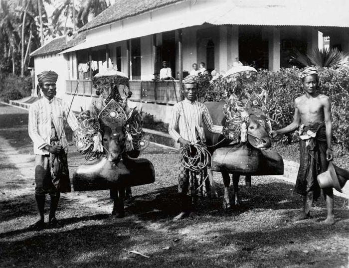 Cattle races